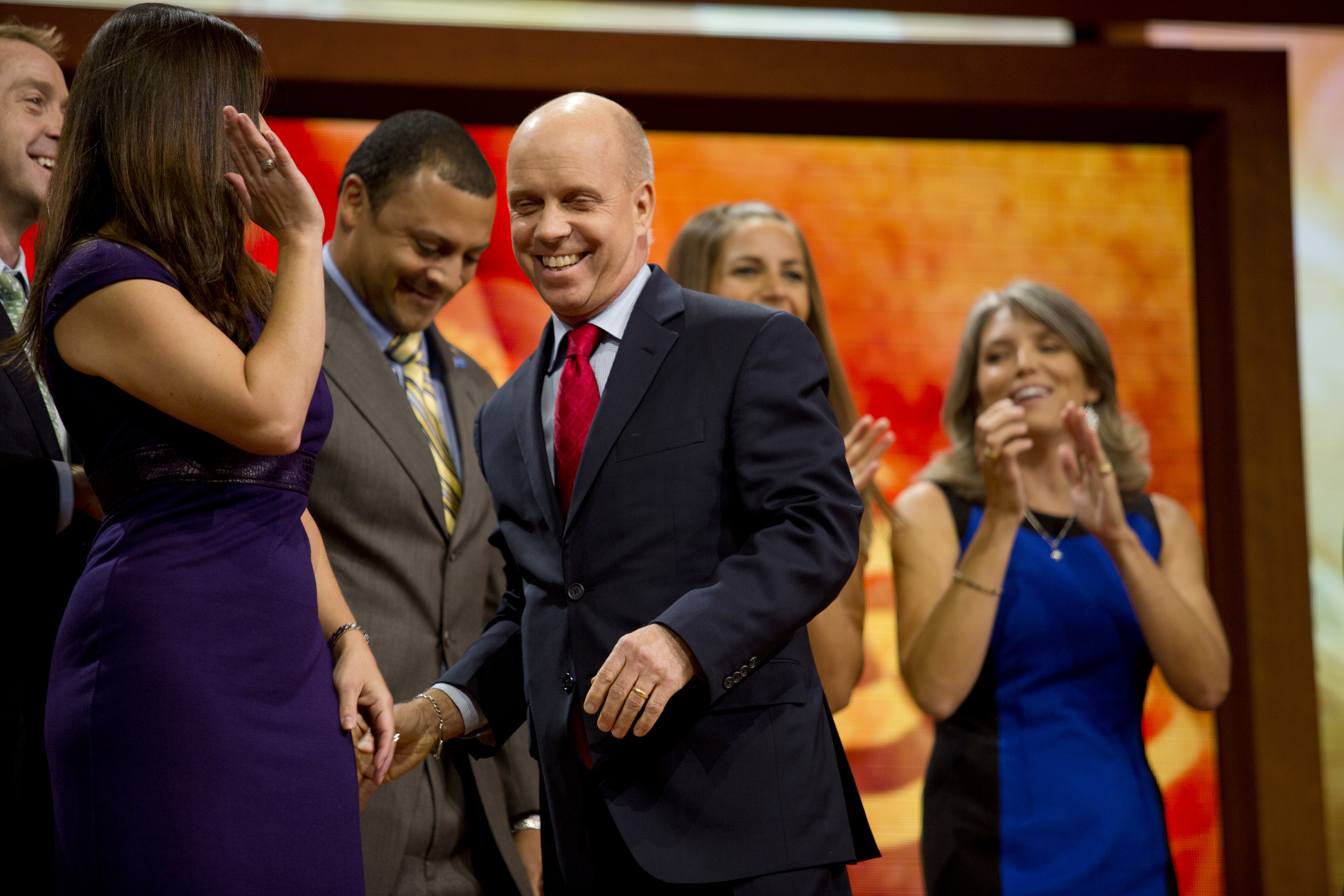 Former U.S. Olympians prepare to high five Scott Hamilton, center - facing camera, during the final night of the Republican National Convention. Photo by Mallory Benedict/PBS NewsHour